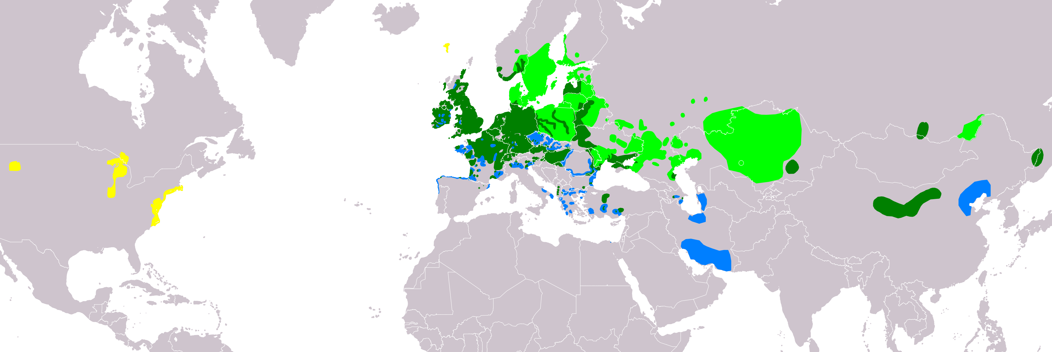 Distribution map of mute swan (Cygnus olor) according to IUCN version 2019-2 ; key: Legend: Extant, breeding (#00FF00), Extant, resident (#008000), Extant, non-breeding (#007FFF), Extant & Introduced (resident) (#FFFF00)